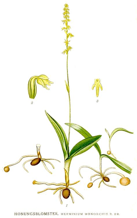 Herminium monorchis (L.) R. Br. Original Description Honungsblomster, Herminium monorchis R. Br.